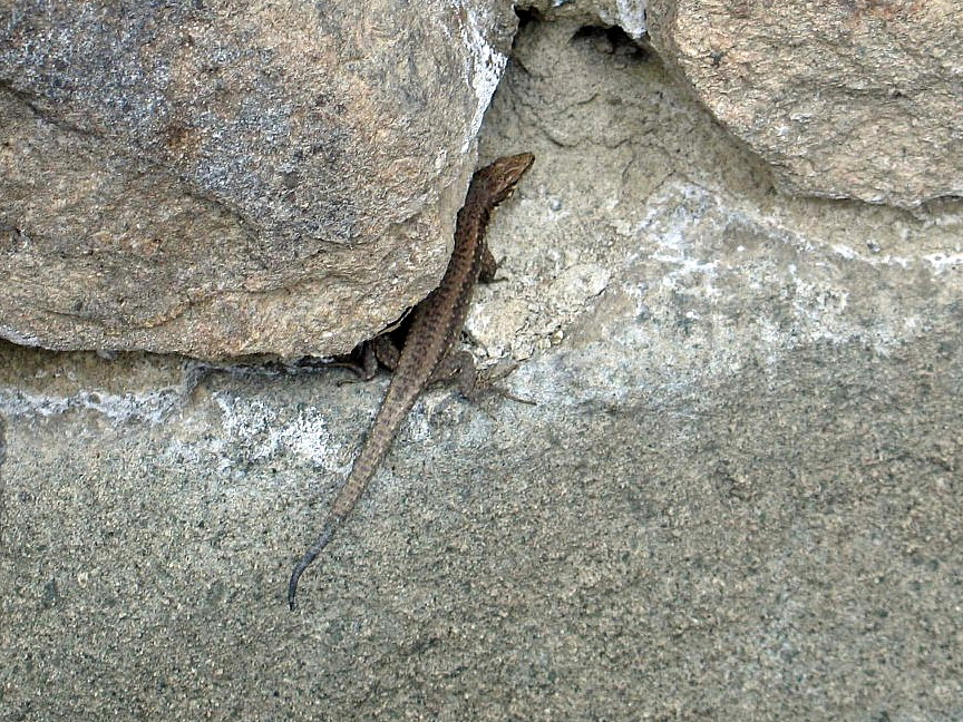 Anatololacerta anatolica JCVI Reptiles Database (Lacerta anatolica}, Trabzon Province, near Sümela Monastery, Turkey